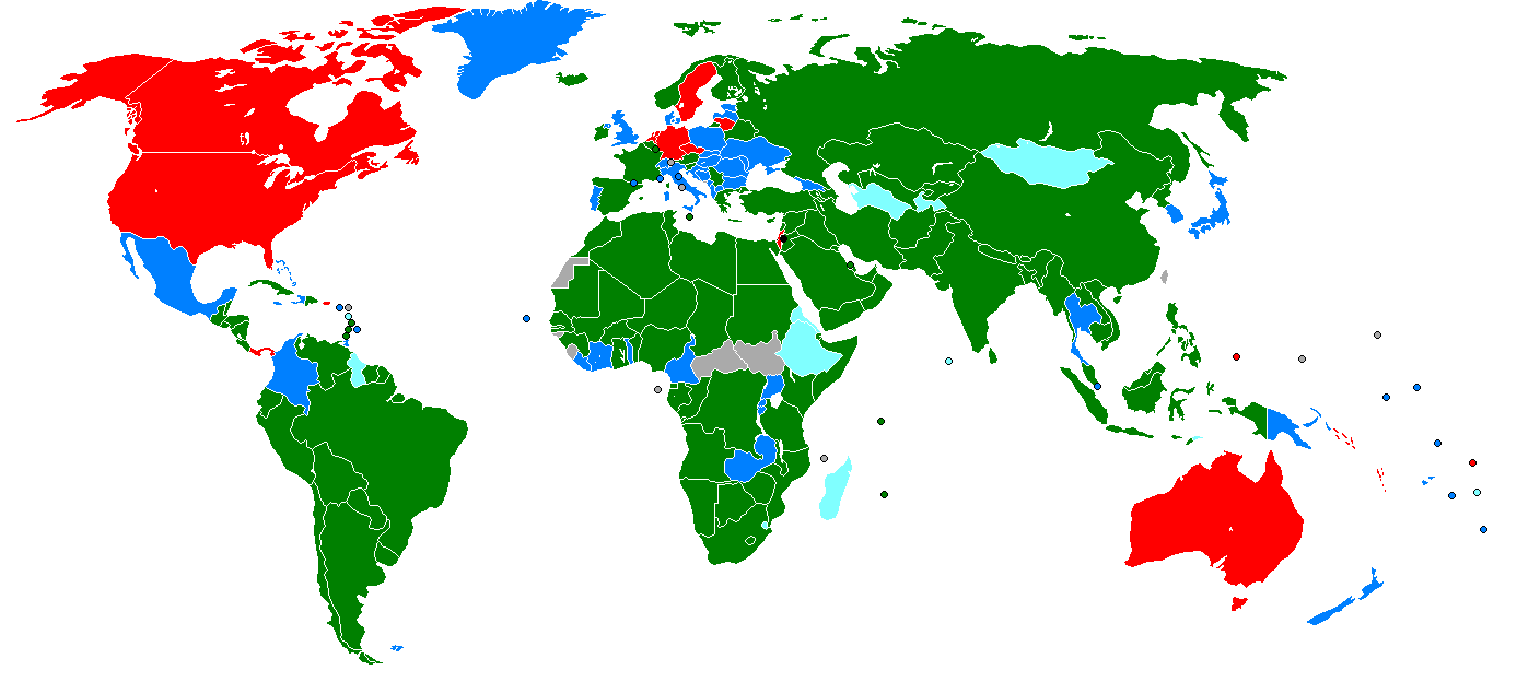 Results of the voting for Palestine membership in UNESCO, on 31 October 2011 No Yes Abstentions Absent non-members / members ineligible for voting